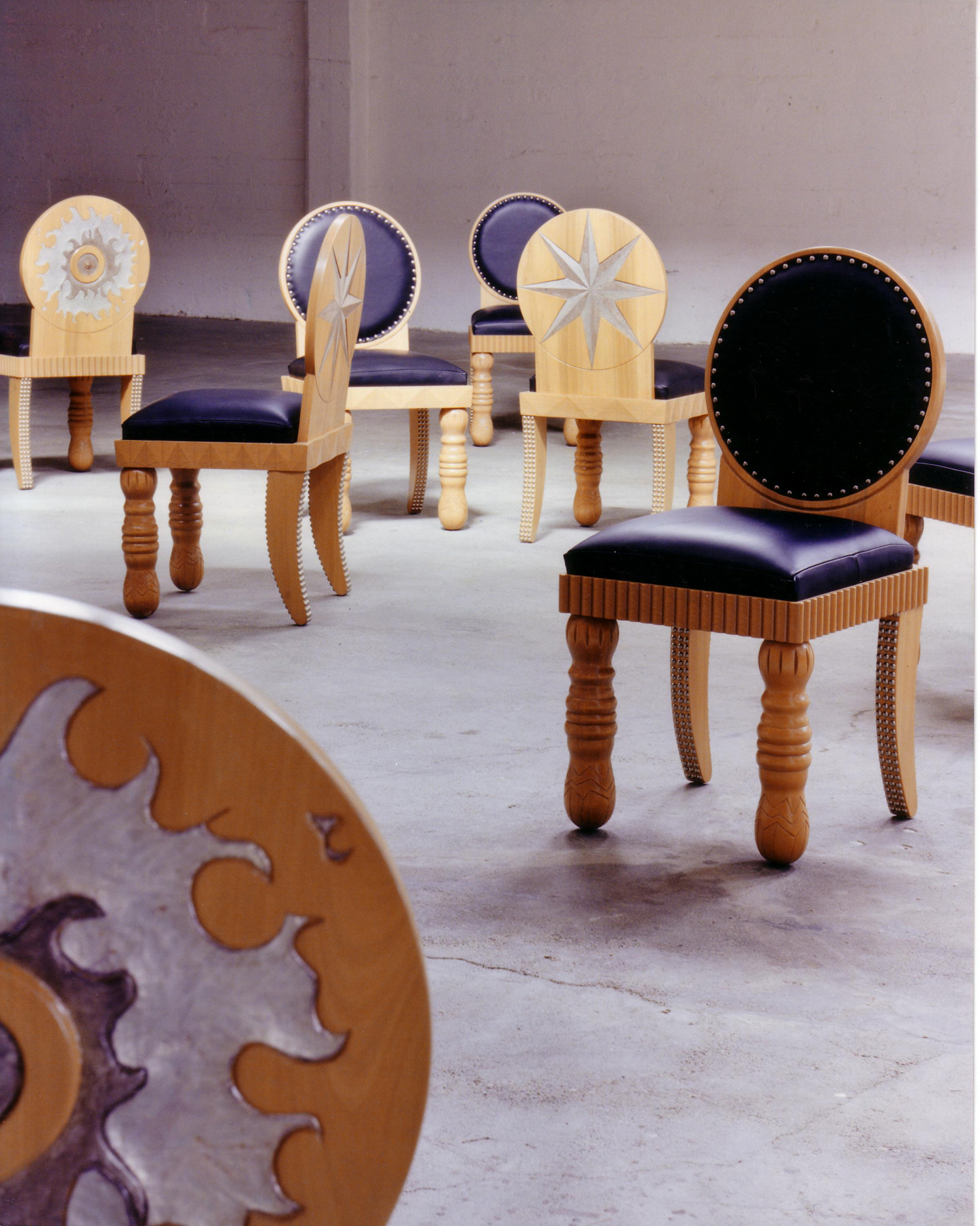 Sunburst and Starburst Chairs, now part of the permanent collection at the Oakland Museum.a